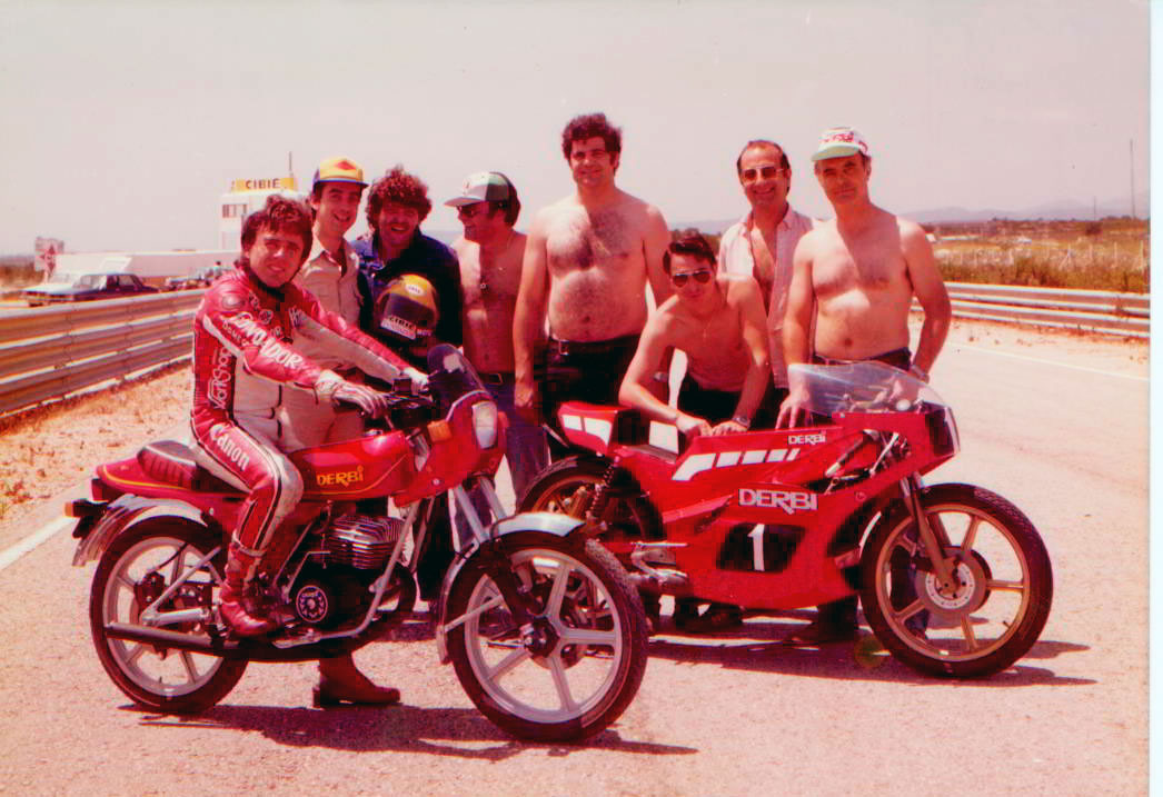 Min Grau on a Derbi 1001 at Calafat, in front of some members of the Derbi factory team circa 1980